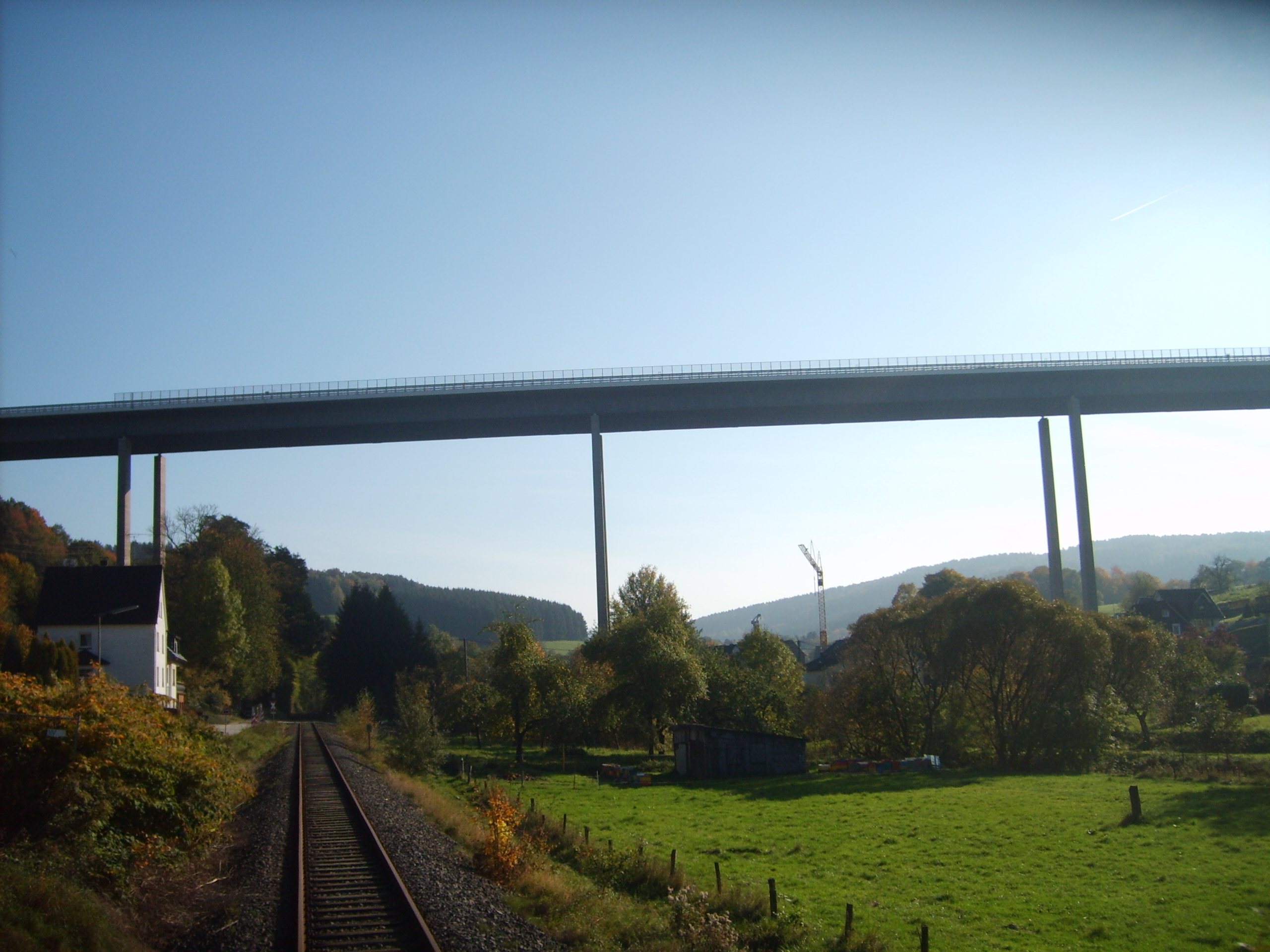 Bridge over the Wiehltal, Motorway 4, Germany, NRW, Wiehl sean from the Railway "Wiehltalbahn" between Engelskirchen-Osbergshausen and Wiehl, 12.10.08